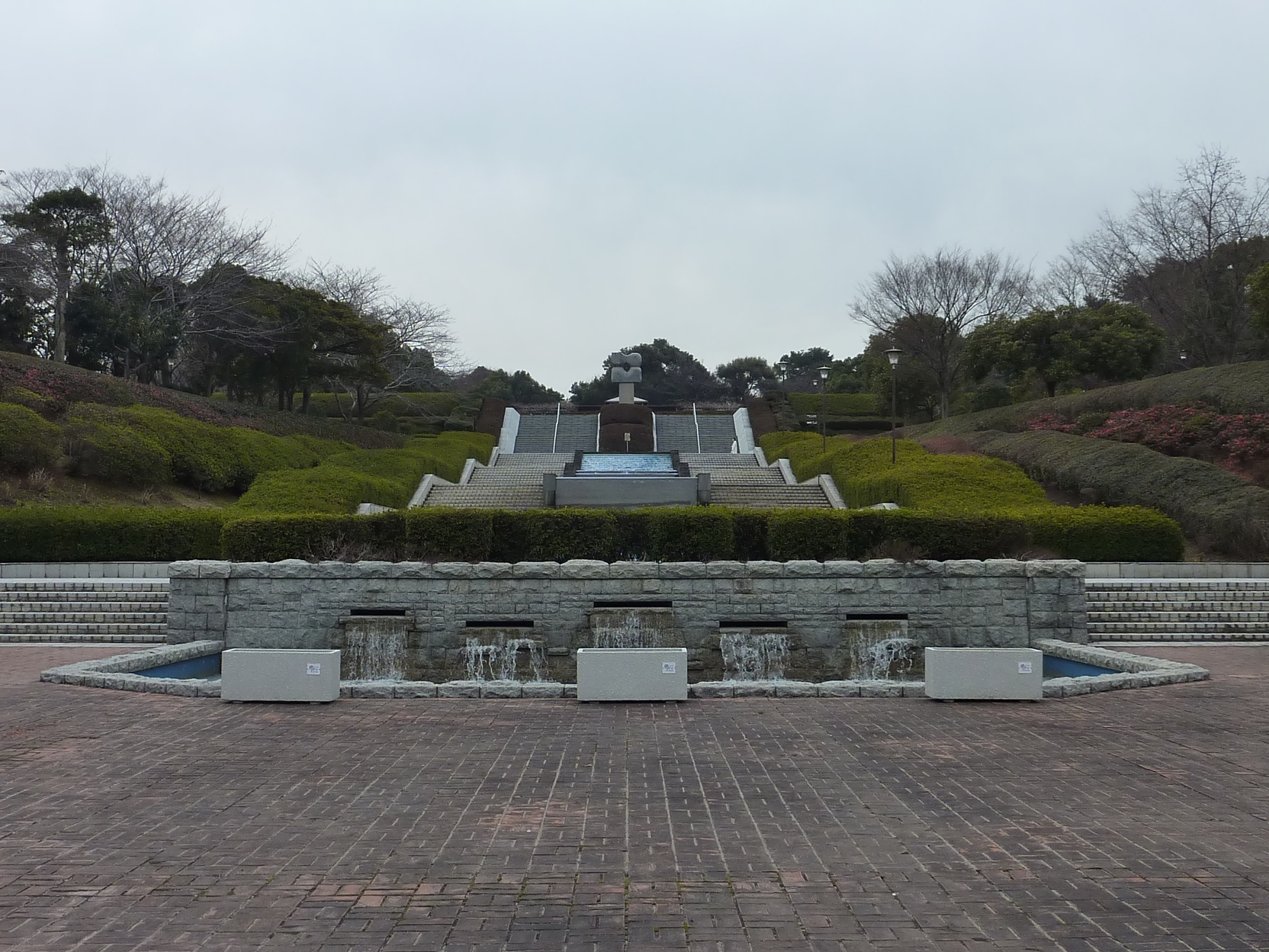 Eigenzan Park (Shunan City, Yamaguchi, Japan)